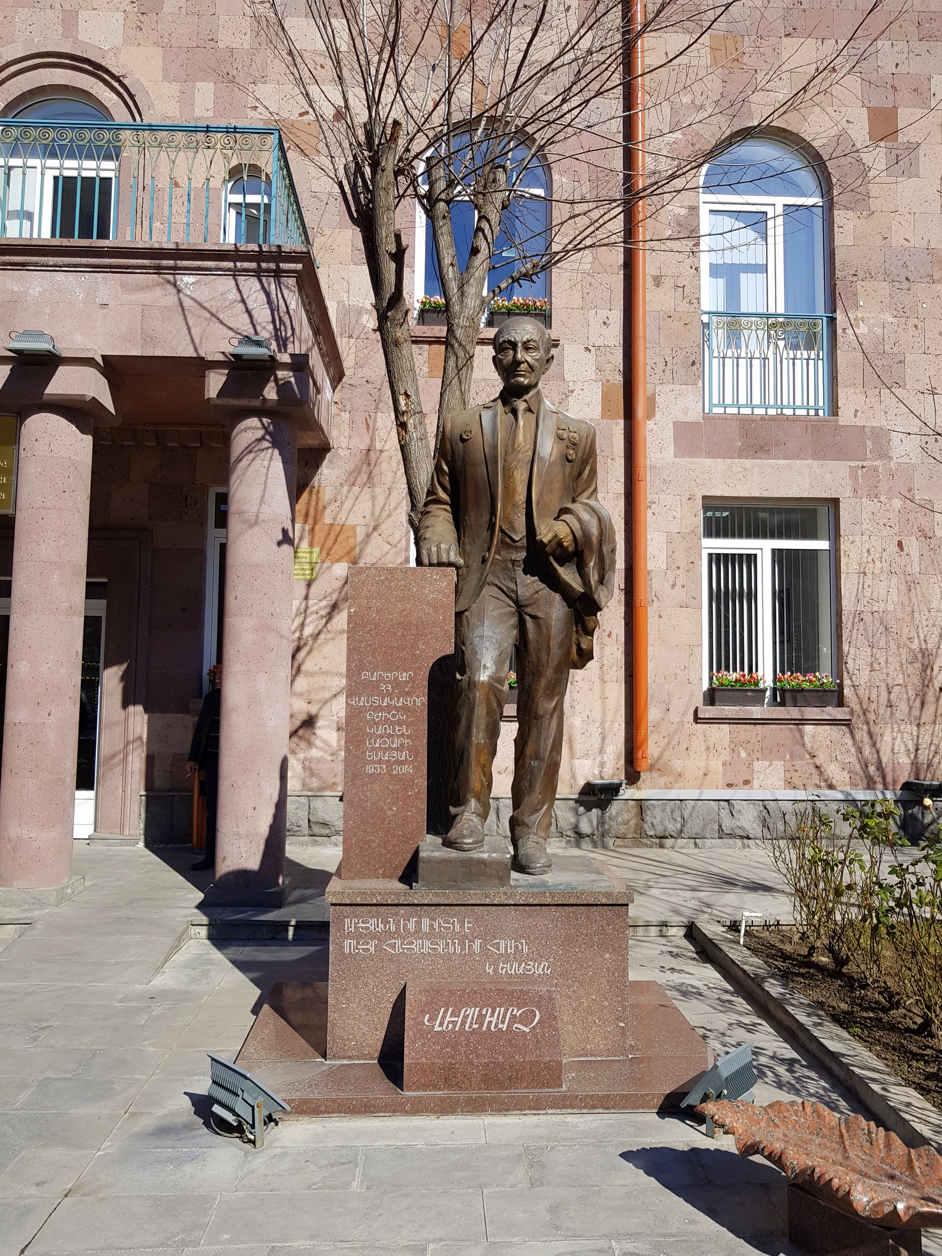 Karlen Yesayan's Monument in front of Polyclinic after K. Esayan